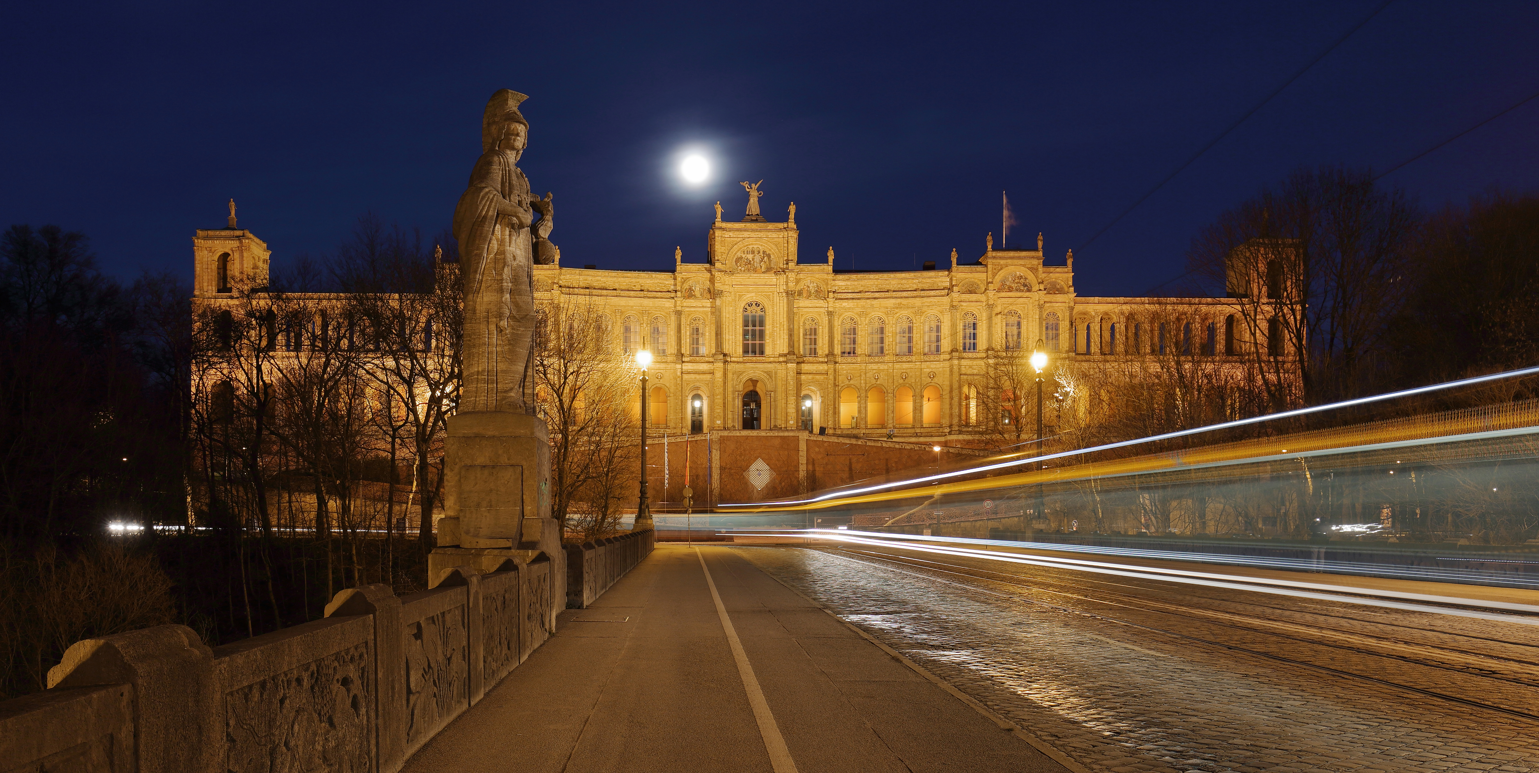 The Maximilianeum, seat of the Bavarian State Legislature, at night with light trails created by a passing streetcar (Line 19).